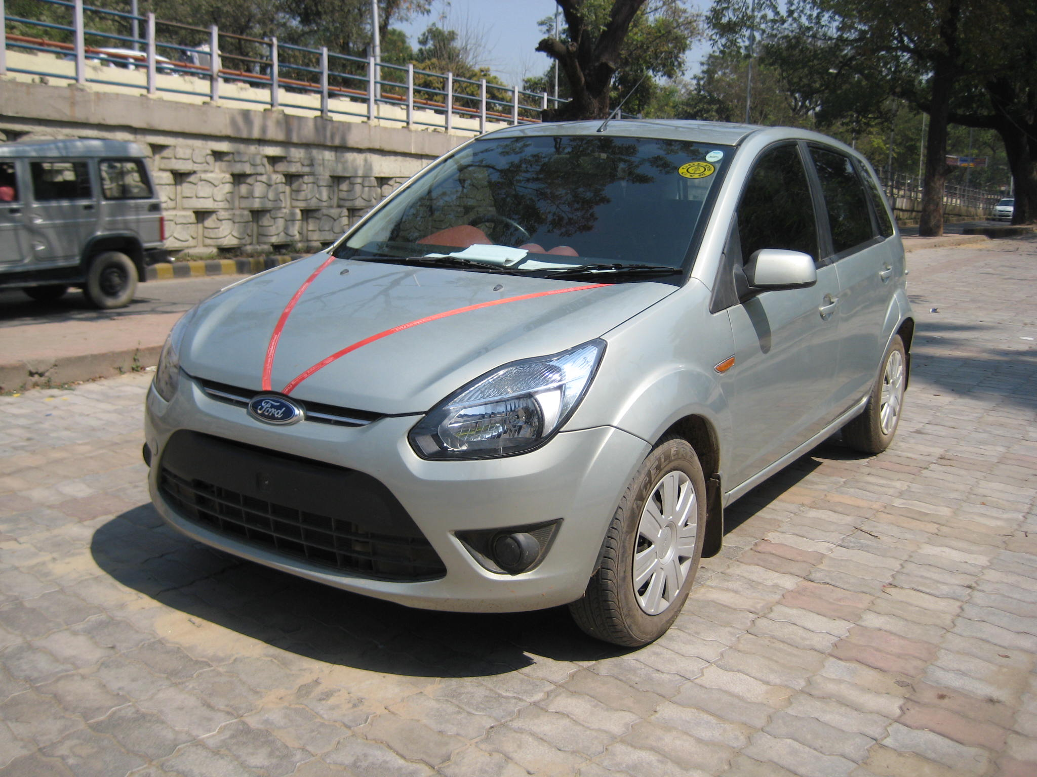 Ford Figo, Indian Ford Fiesta